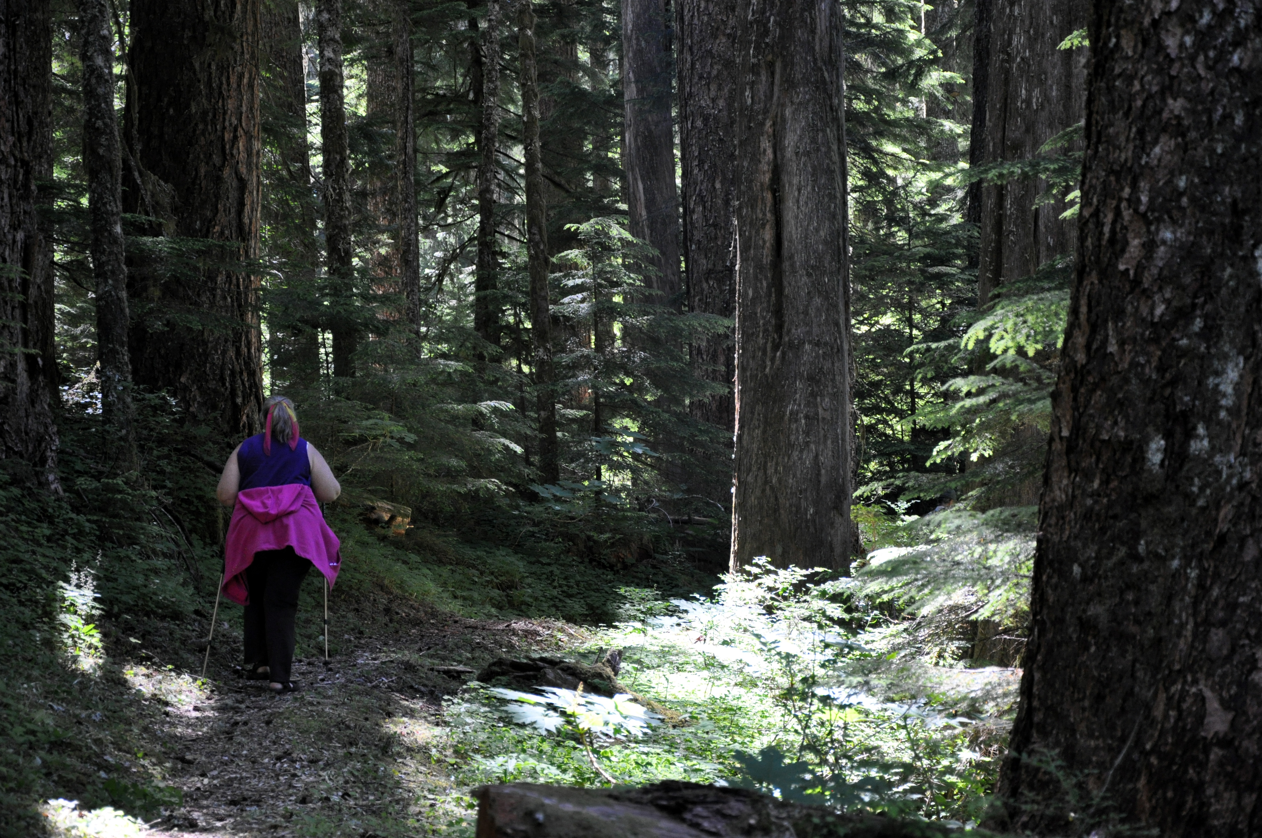 A woman on a Portland Water Bureau tour of the Bull Run River watershed in northwestern Oregon, United States, hikes on a forest trail near the headwaters.